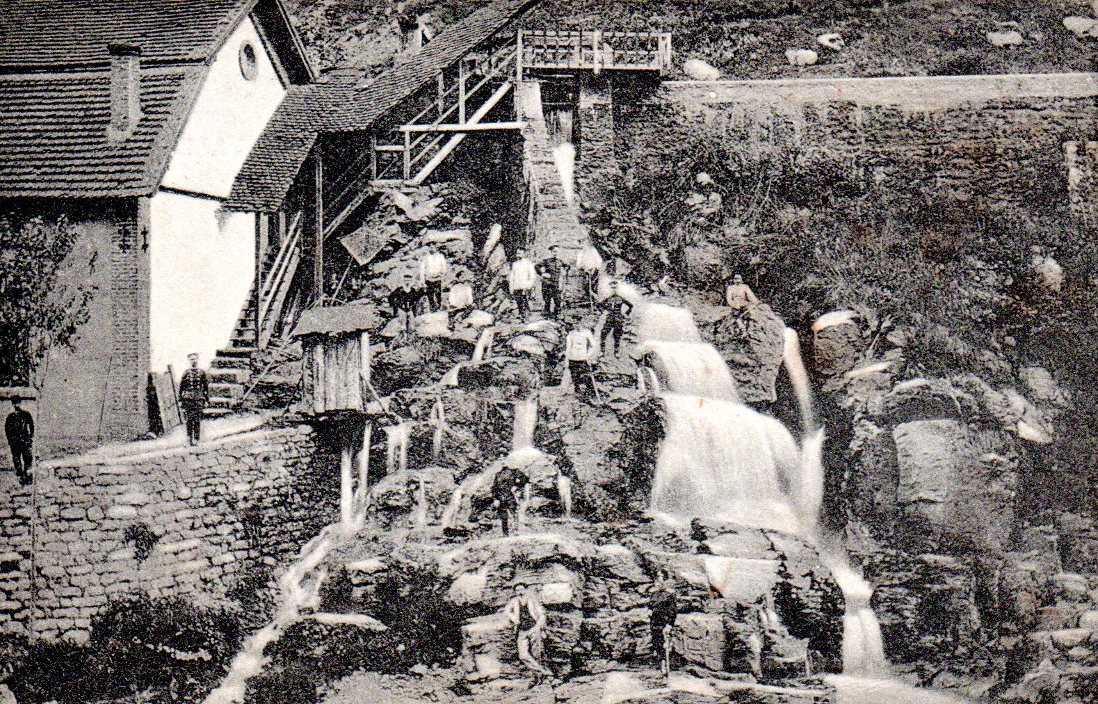 Electric power plant in Uzice photographed before 1921.